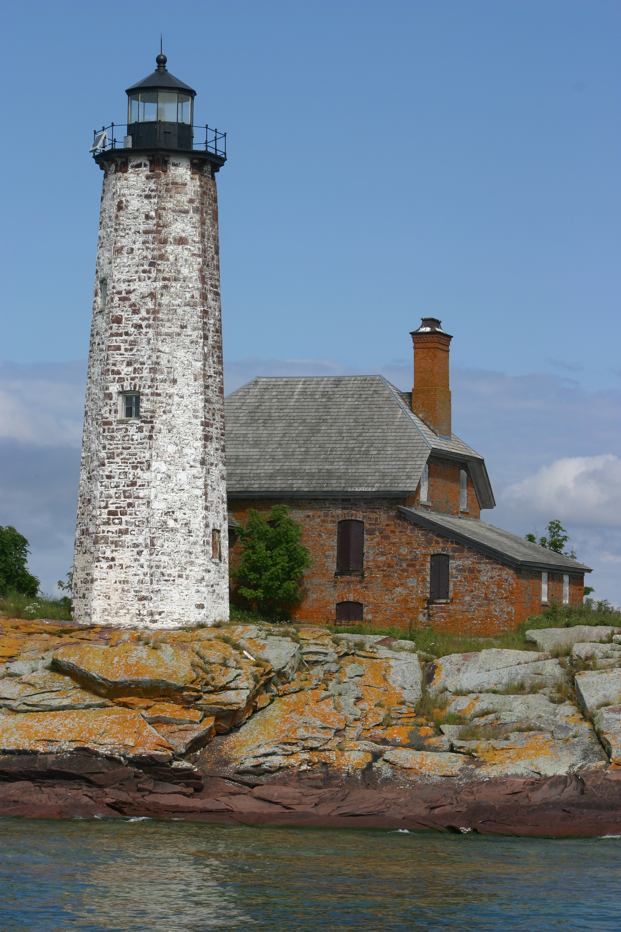 The light on Isle Royale often known as Meagerie Island Light